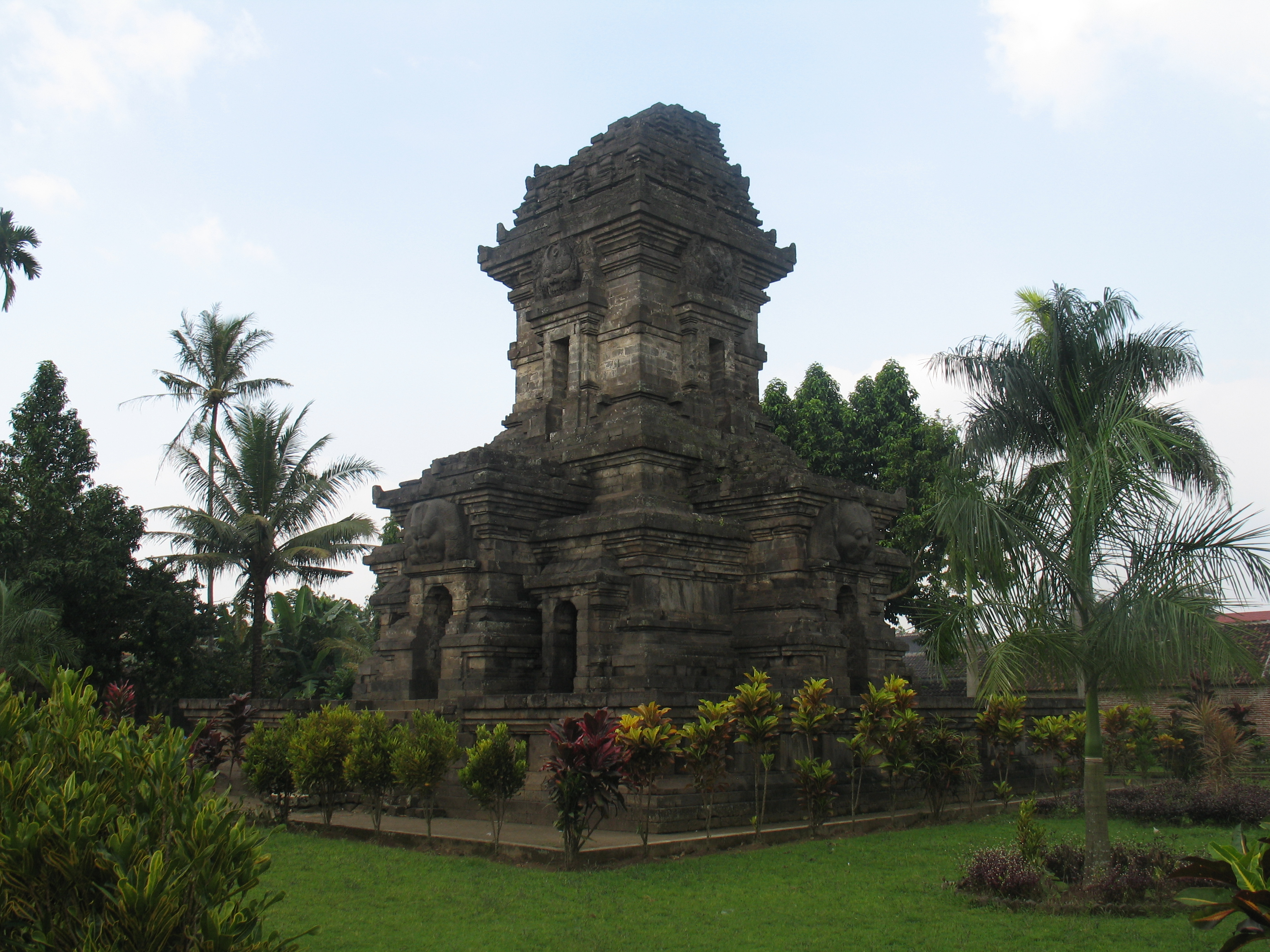 Singhasari Temple, East Java, Indonesia